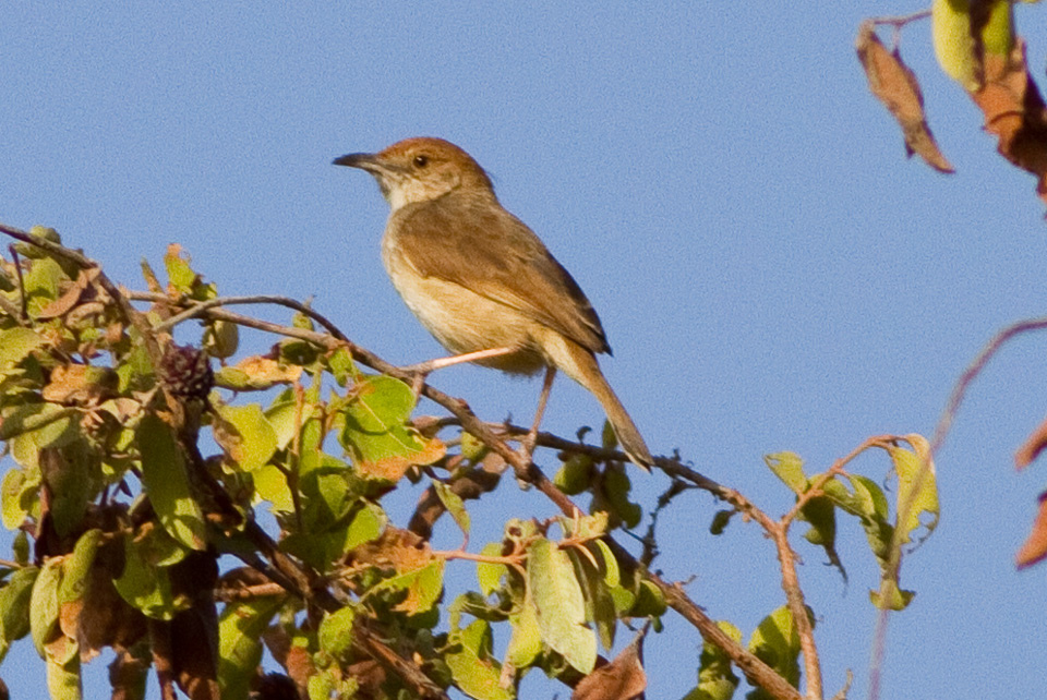 Benoua National Park,Cameroon